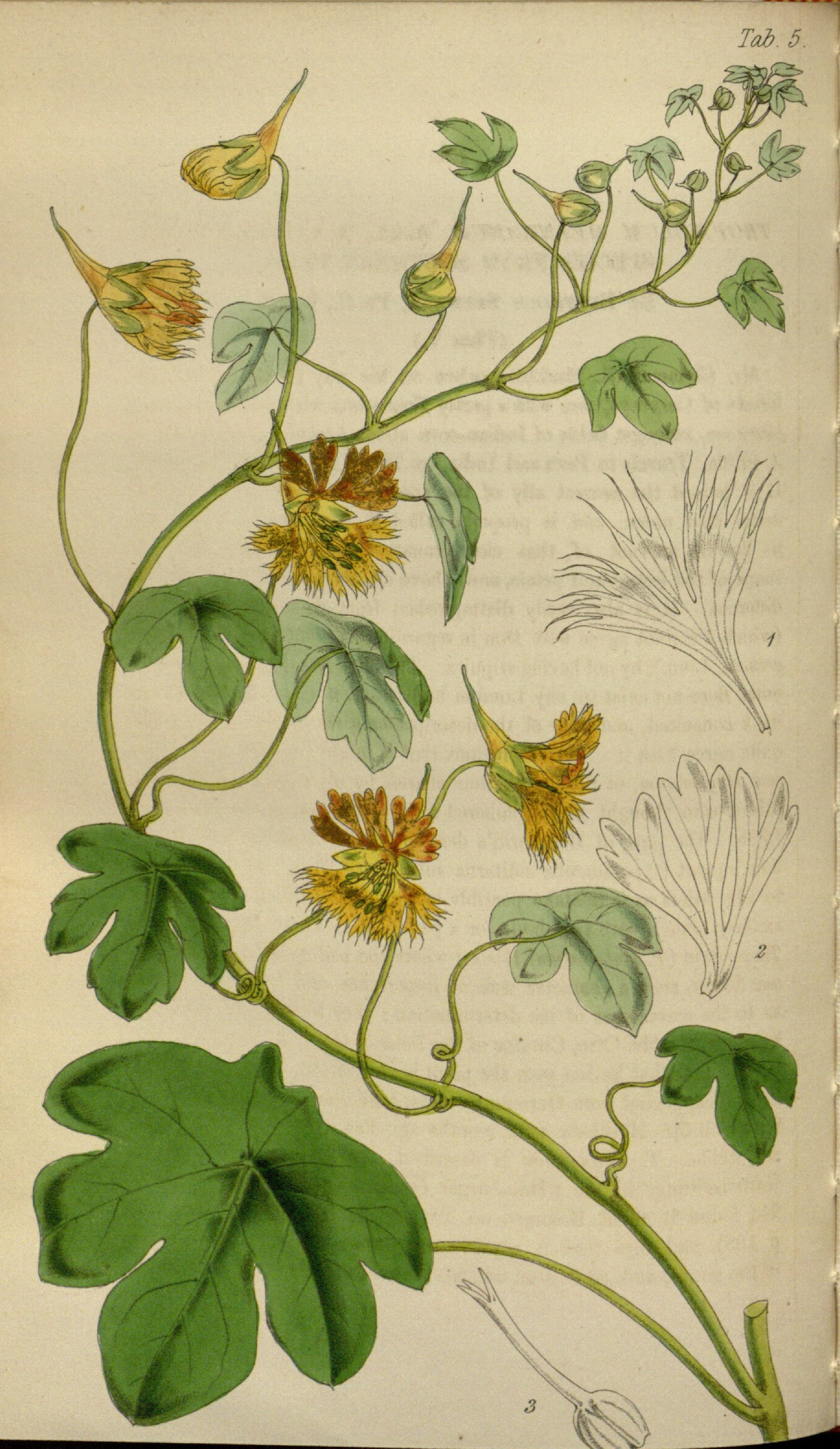 Tropaeolum hayneanum